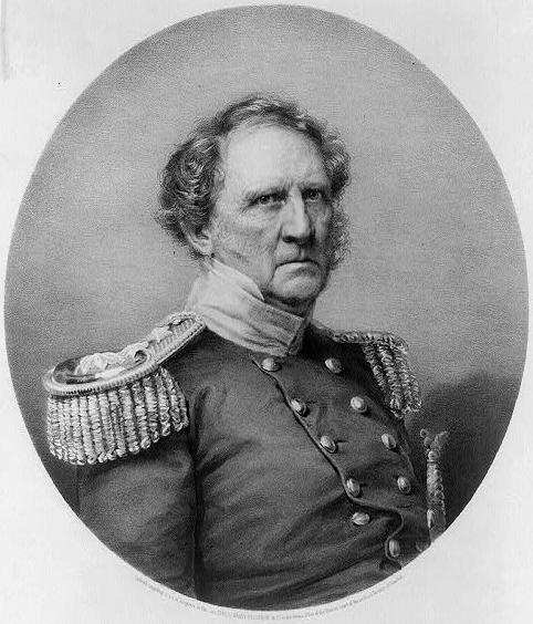 Gravering af general Winfield Scott